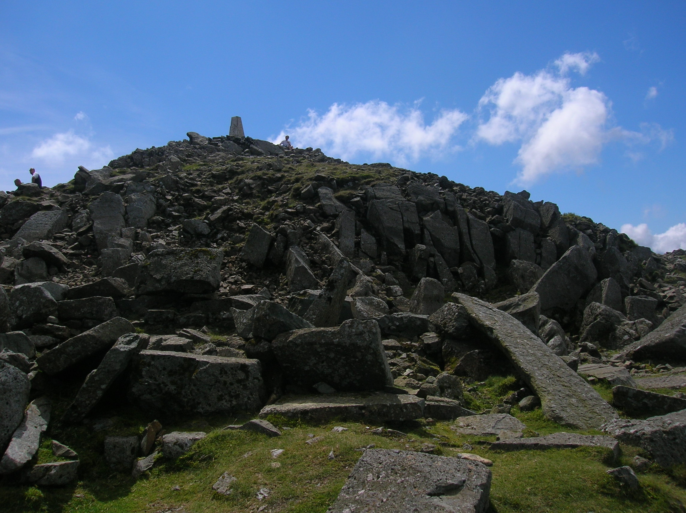 View along the ridge east of the Cadair Idris summit (Penygadair), Snowdonia, UK